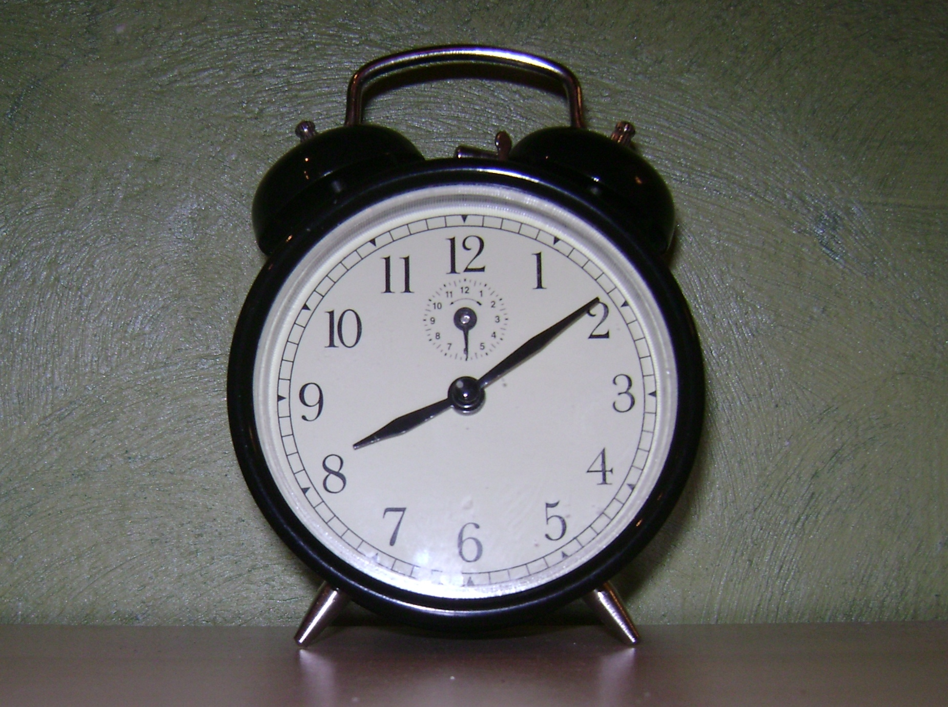 Alarm clock